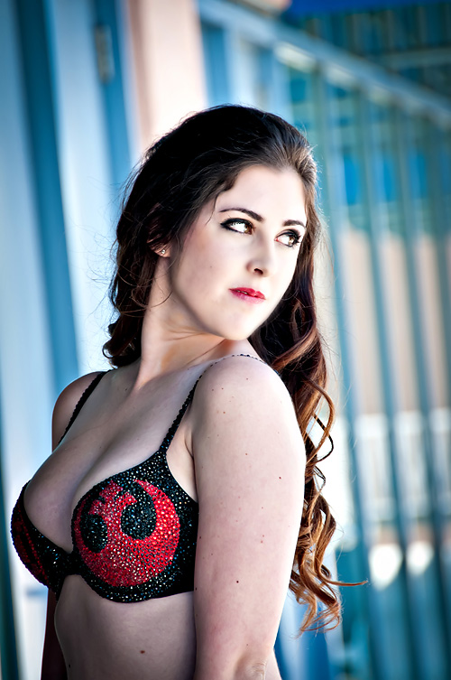 Geek Fashion Show at the 2013 Big Wow! ComicFest in San Jose, California. Alyssa Hoboson modelling Star Wars-inspired "Imperial vs. Rebel" rhinestone bra and "Let's Make Wookiee" briefs by Nerds with Vaginas.